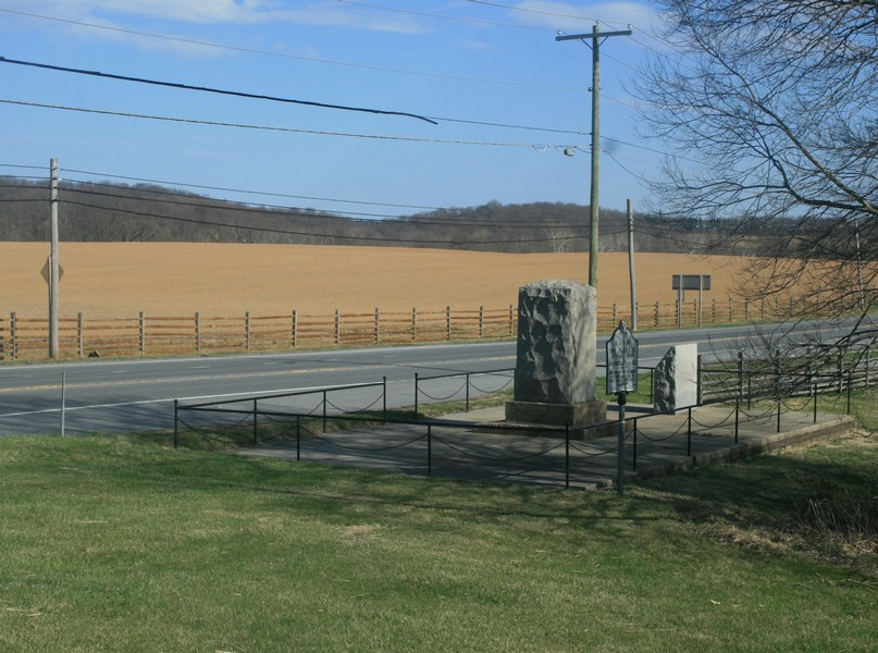 Lee & Jackson headquarters south of Frederick, Maryland. 6 - 9 september 1862